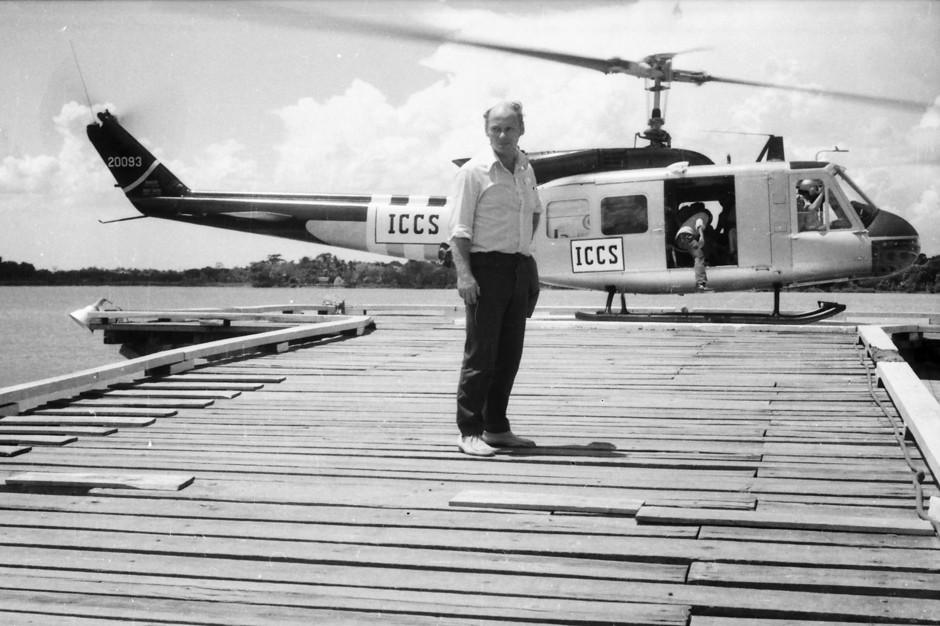 Polish representative working for ICCS in Vinh Long Vietnam 1973